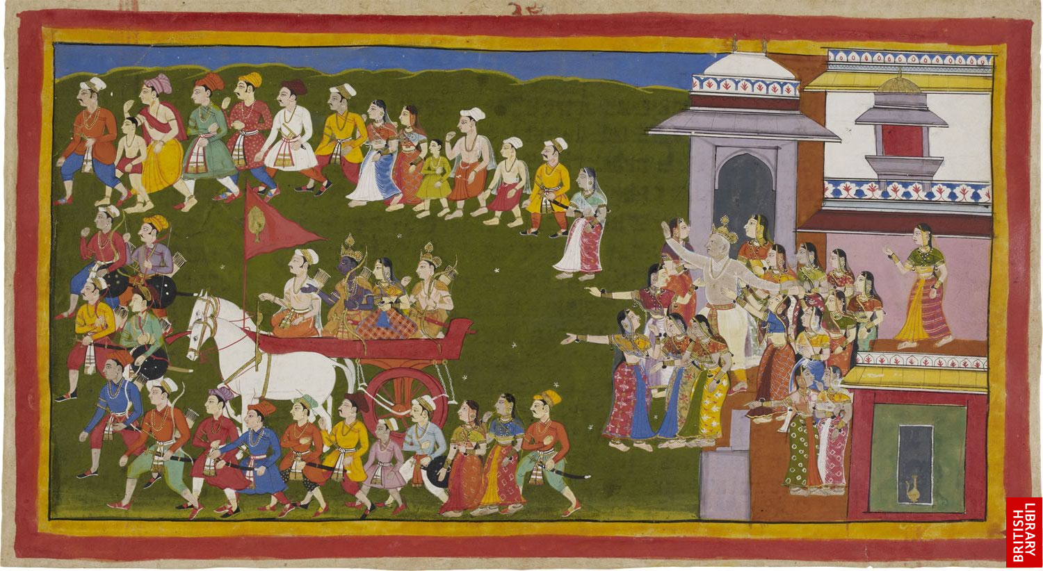 Rama, his wife and brother, dressed in the clothes of bark that Kaikeyi has made them put on, ride off in a chariot driven by Sumantra and surrounded by the townspeople. Dasaratha emerges from his palace and goes through the gate of the city surrounded by his queens. Dasaratha and Kausalya according to Valmiki's text hurry after the chariot until Rama, unable to bear the sight, has to tell Sumantra to quicken his pace so that they would be left behind. The artist Sahib Din has the king simply make a grand gesture of farewell. This painting is the climax of a series of densely textured paintings that graphically portray the grief and mounting hysteria of the court as Rama's exile approaches. Whereas the previous ones employ simultaneous narration, in which several episodes appear in one painting, this climactic image focuses powerfully on one incident in the story. The standard with the tree flying from the chariot is not in the text but demonstrates Sahib Din's attention to detail: later in the story, when Bharata's army is approaching Citrakuta, the text mentions that the kovidara (orchid-tree) was emblazoned on his standards.